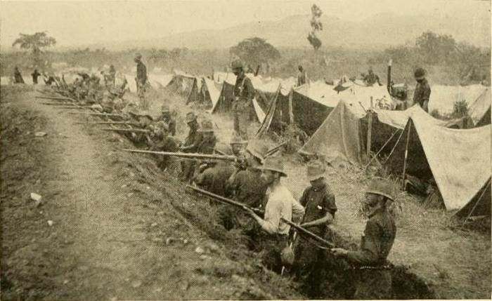 Entrenched camp of the 2nd Massachusetts Volunteer Infantry during the Siege of Santiago in 1898